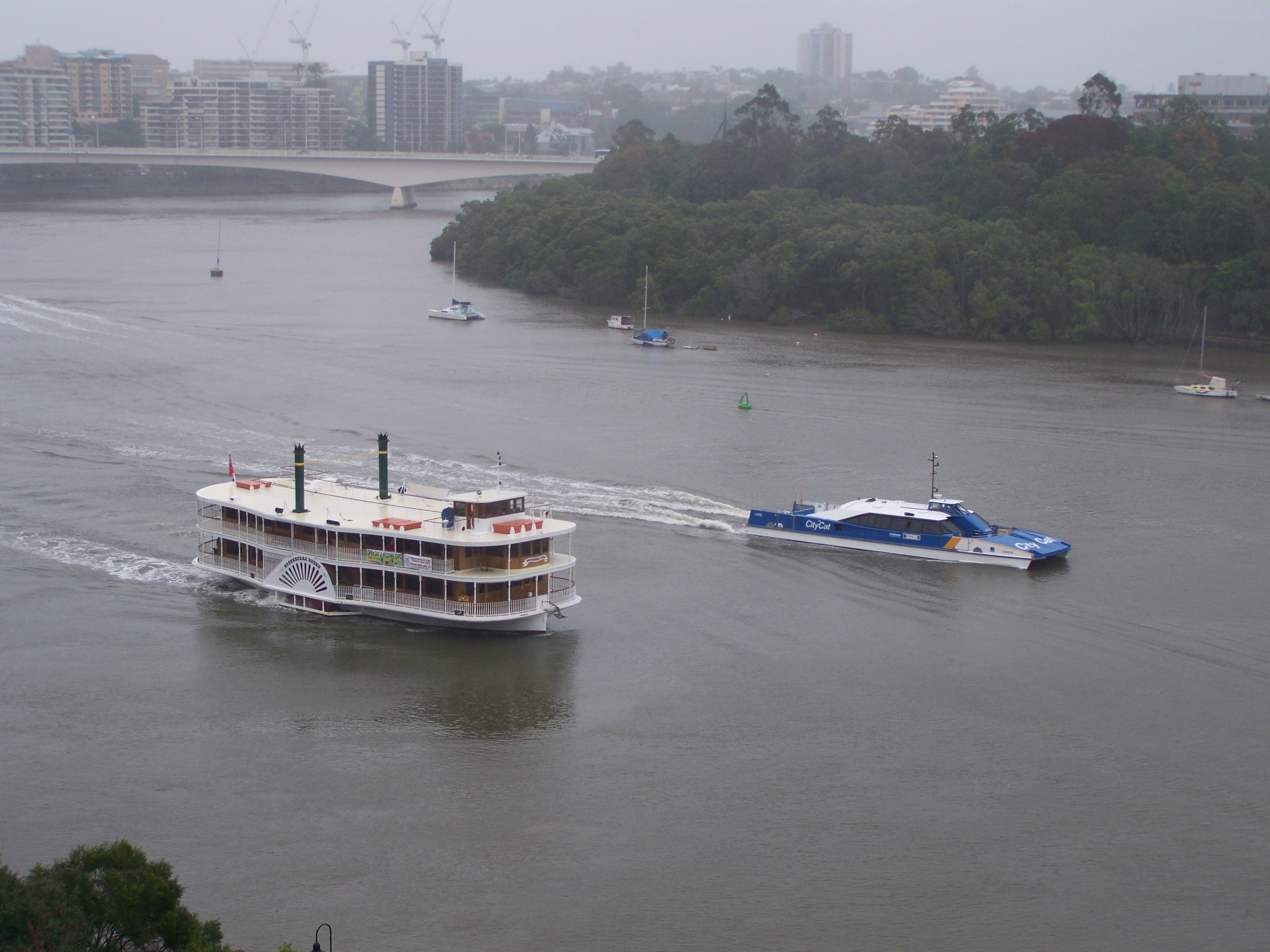 Paddle steamer (diesel powered) Kookaburra Queen and CityCat on the Brisbane River.